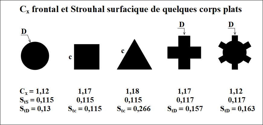 Strouhal and frontal Cx of flat axisymmetric and regular bodies, after Fail, Lawford and Eyre (1959)